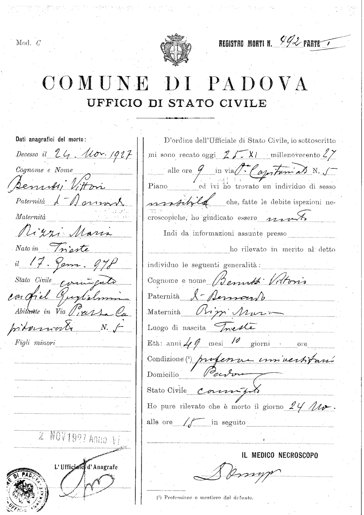 Official document reporting the death of Vittorio Benussi. The field "cause of death" at the bottom of the form is blank.